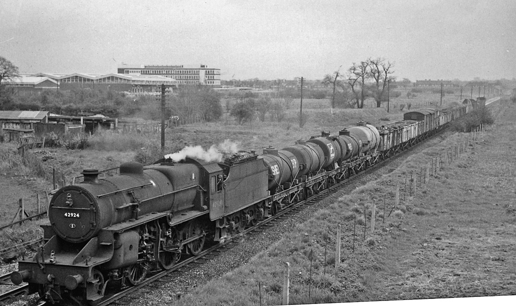 Westbound freight train approaching Baguley Station. View eastward, towards Stockport (Tiviot Dale) and Godley Junction; Cheshire Lines (CLC) main line Glazebrook - Godley Junction. The Class H freight is headed by Hughes/Fowler 5P4F 2-6-0 No. 42924.